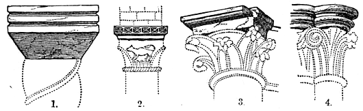 Four different types of abacus.